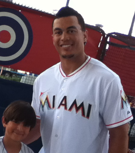 This is a picture of Giancarlo Stanton with a young fan during the Miami marlins Fanfest at the New Marlins Ball Park in 2012